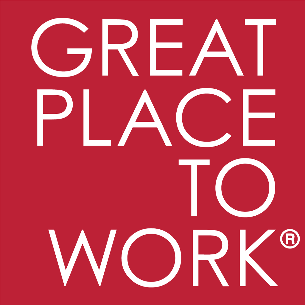 Logo do Great Place to Work